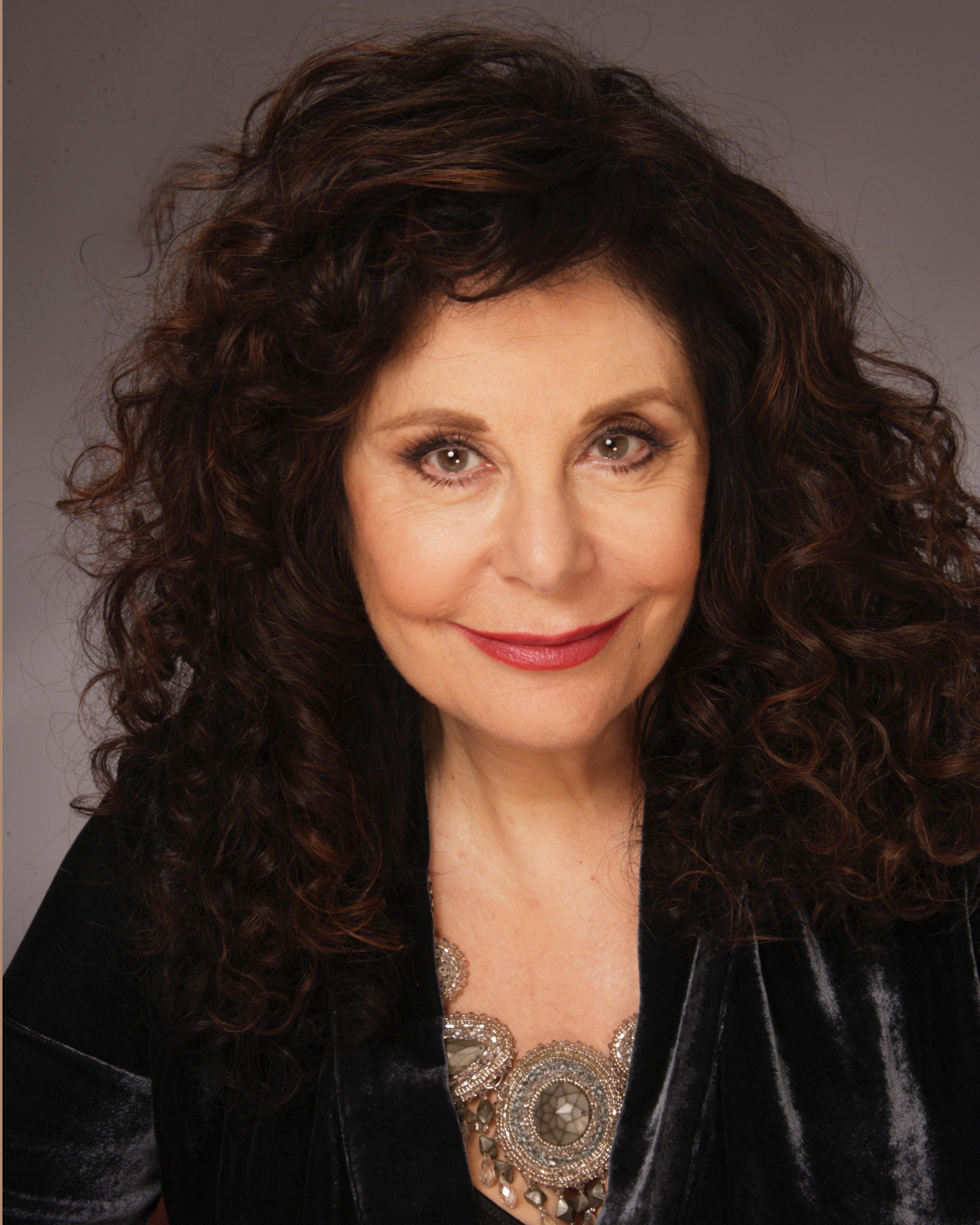 Photograph taken by Harry Langdon Studio.